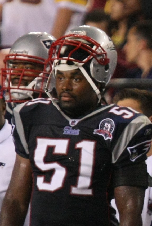 New England Patriots at Washington Redskins